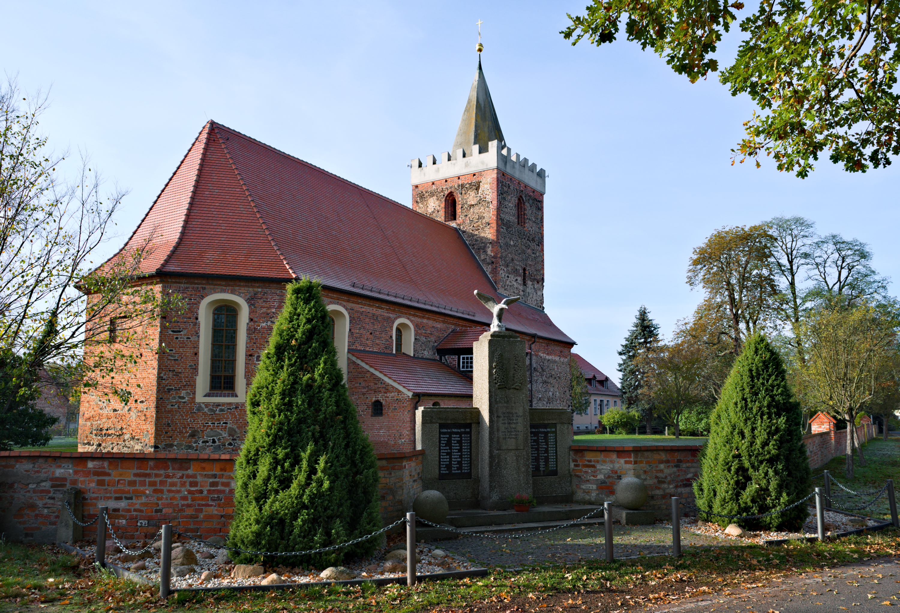 St. Johanniskirche and the Kriegerdenkmal in Cottbus-Kahren.